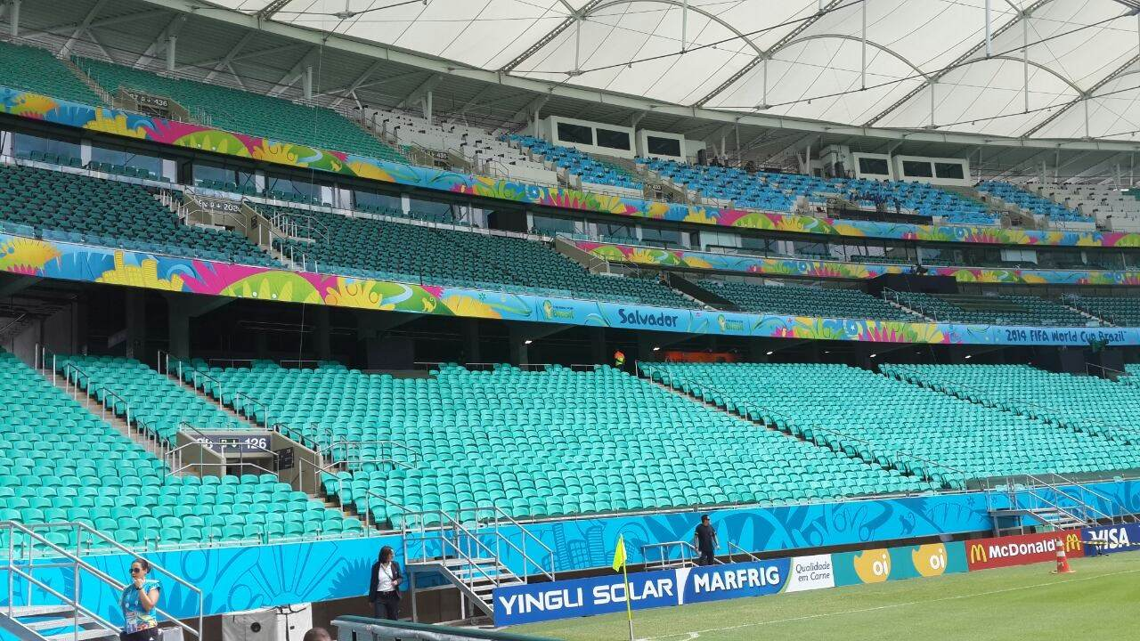 Arena Fonte Nova Stadium in Salvador in Brazil